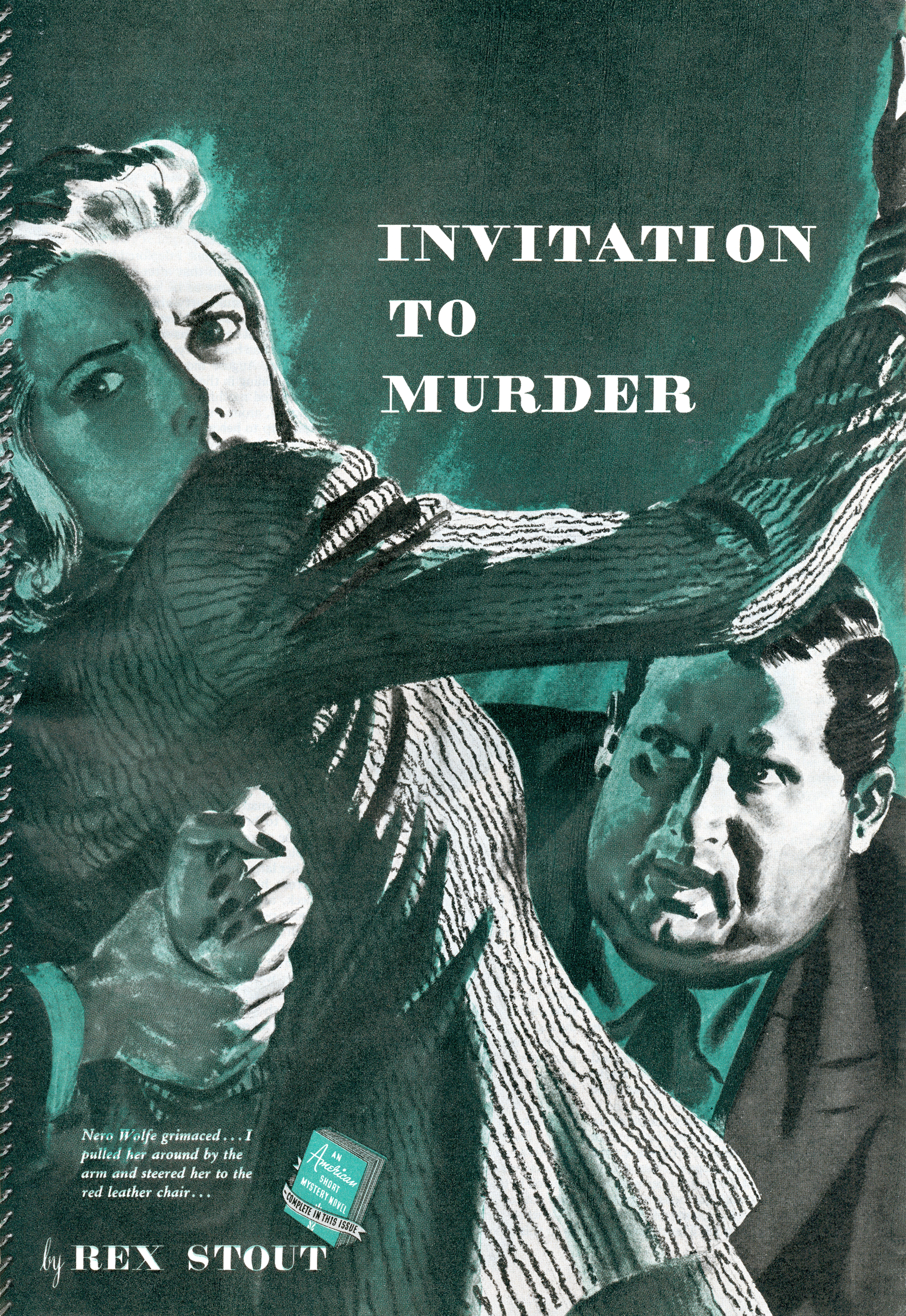 Lead illustration for "Invitation to Murder," a Nero Wolfe story by Rex Stout that first appeared in The American Magazine and was subsequently collected in the book Black Orchids (1942) as "Cordially Invited to Meet Death" Illustration represents Nero Wolfe and Janet Nichols Text reads as follows: Nero Wolfe grimaced … I pulled her around by the arm and steered her to the red leather chair … An American short mystery novel complete in this issue